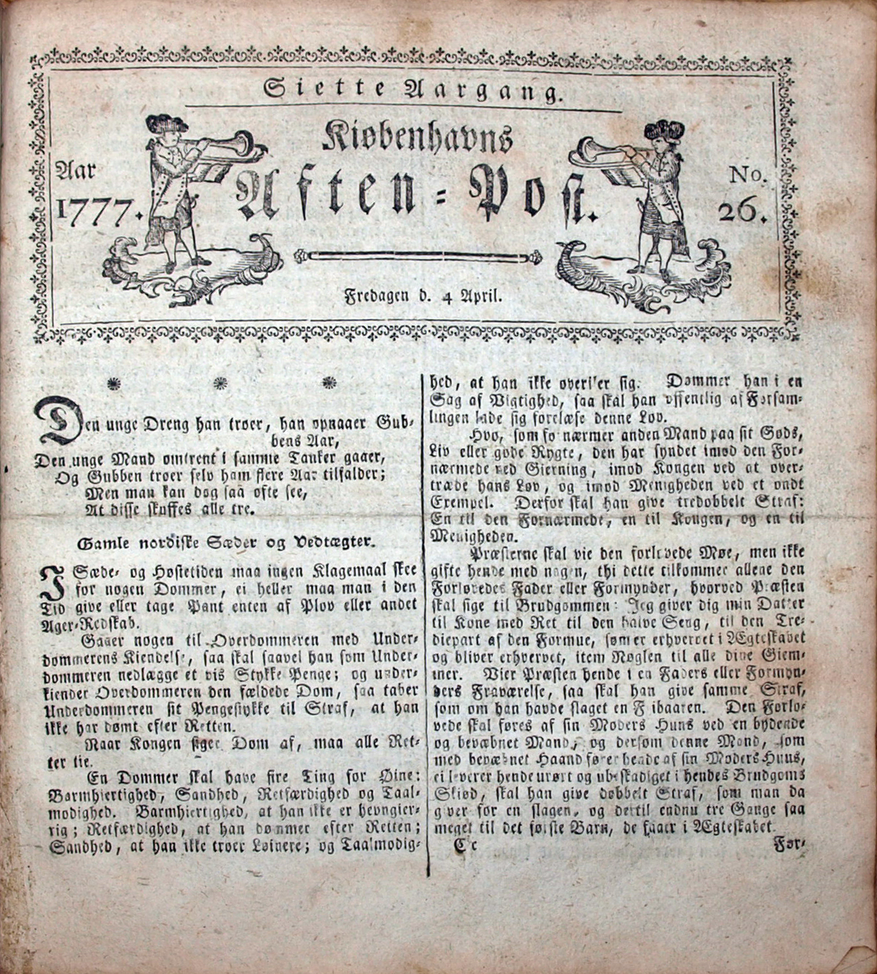 First page of an issue of the Danish newspaper "Kiøbenhavns Aftenpost" ("Copenhagen Evening-Post") from 1777, published by Hans Holck, and edited by Emanuel Balling.